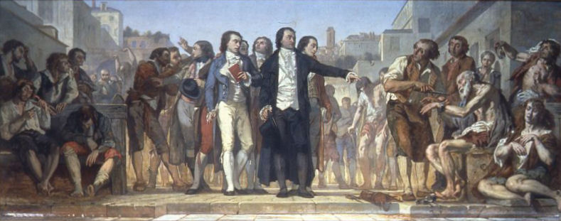 French psychiatrist Philippe Pinel (1745-1826) releasing lunatics from their chains at the Bicêtre asylum in Paris